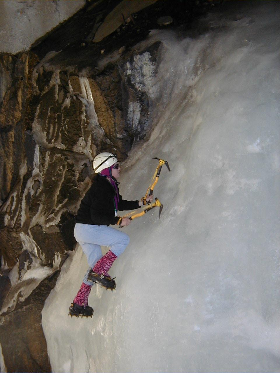 Found at . Caption: "Michele showing us all how to ice climb."